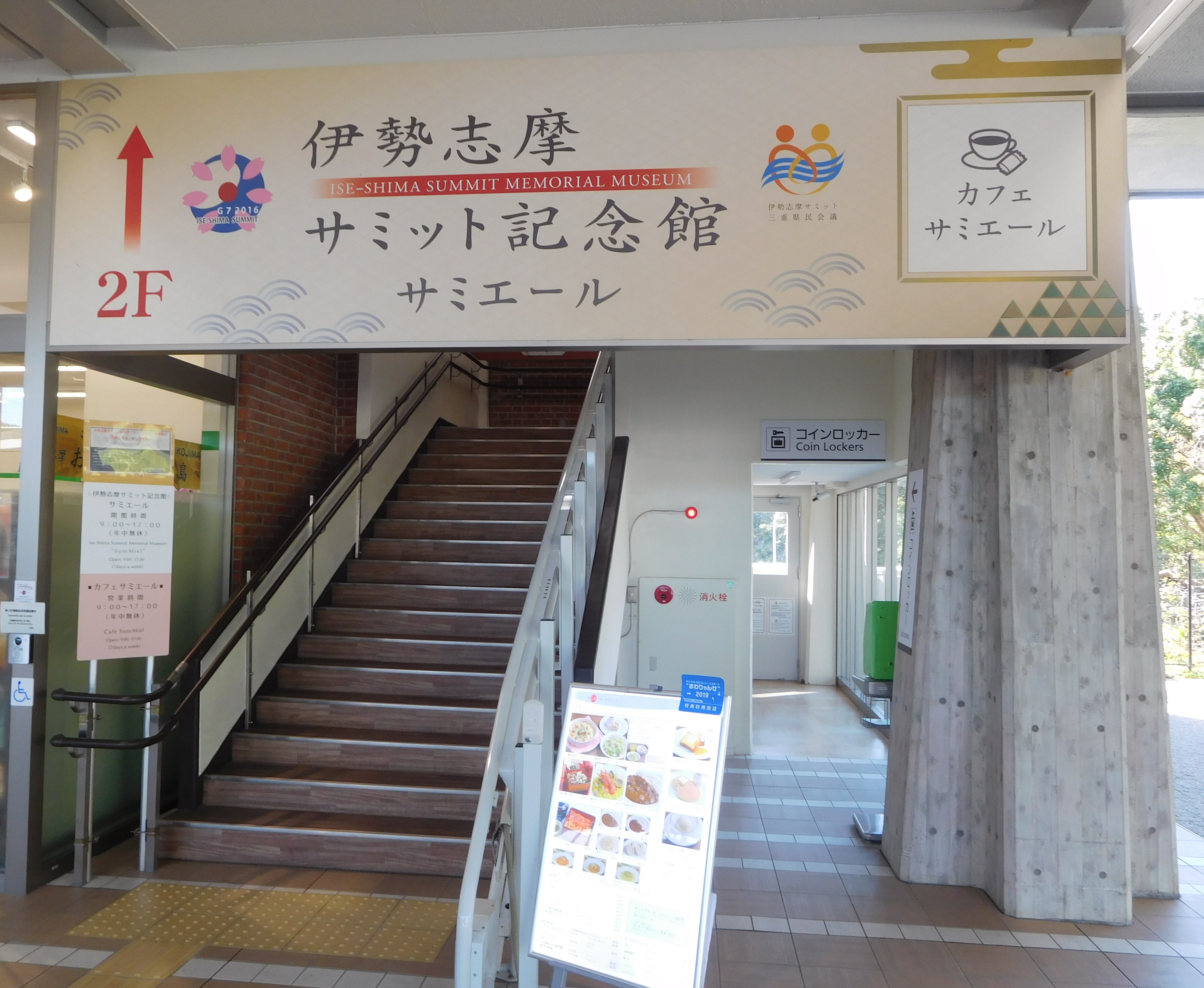 These are stairs to Ise-shima Summit memorial Museum "SumMiel" in Kashikojima, Shima, Mie, Japan.